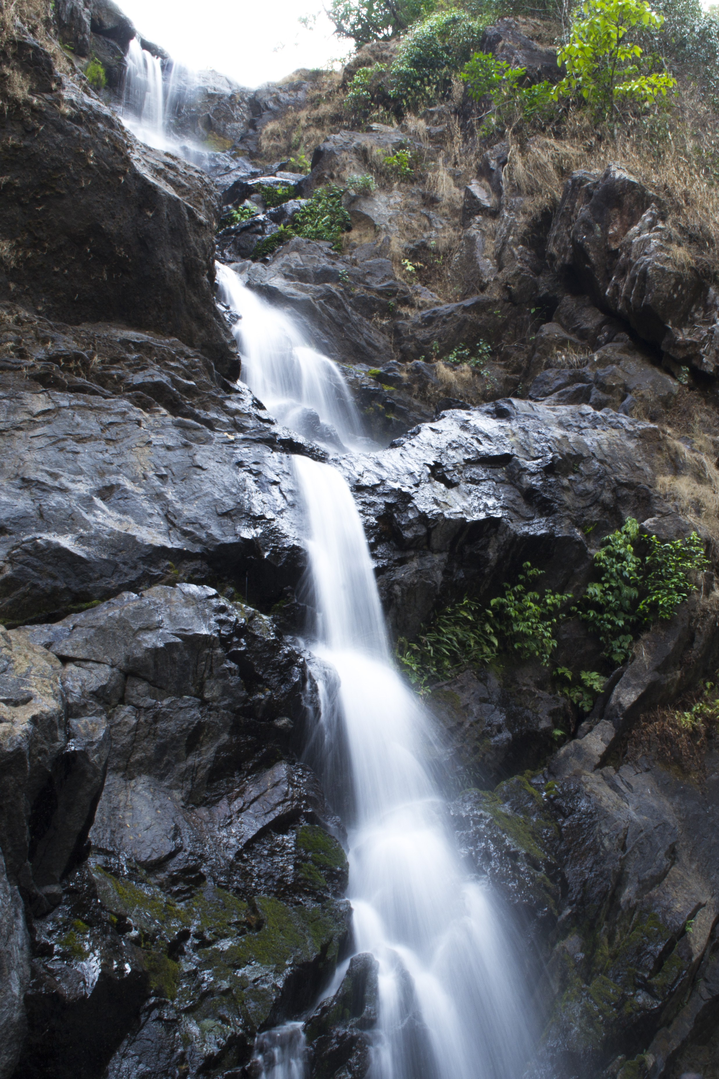 Water looks like milk